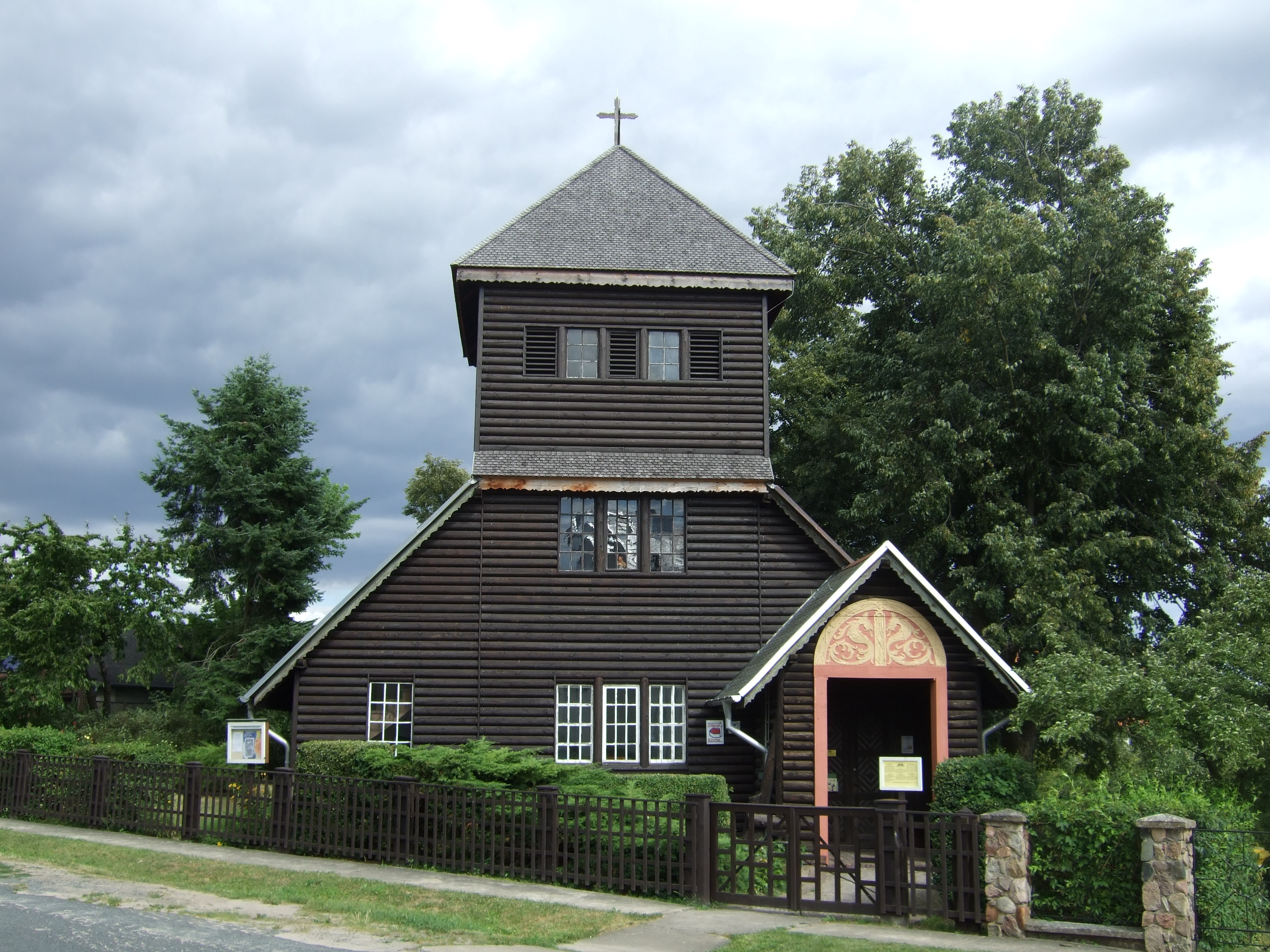 Chapel Heilandskapelle in Frankfurt (Oder), Germany.